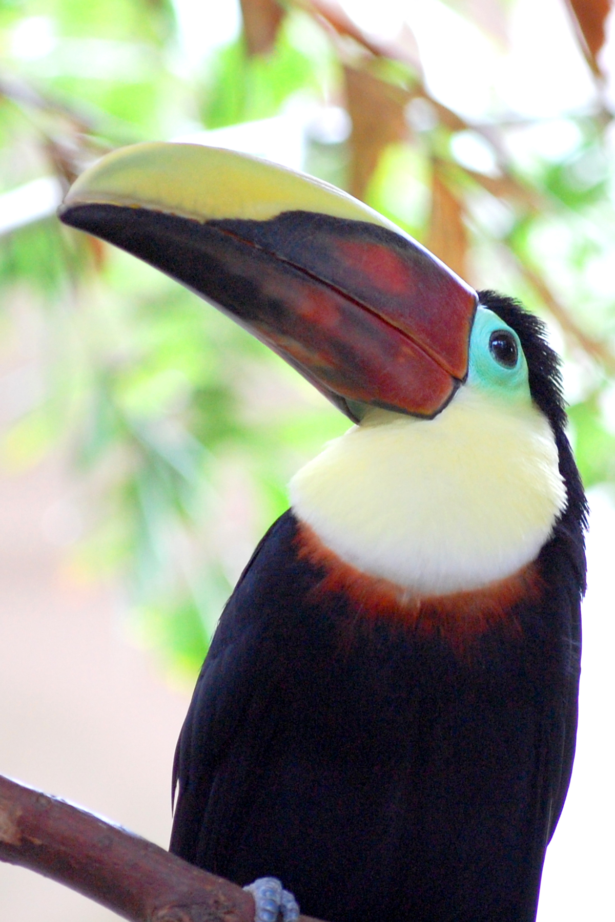 A toucan of with an unusual appearance kept at Bird Kingdom, Ontario, Canada; without knowing its exact pedigree or having an explanation, it seems likely that it is a hybrid between species of the Ramphastos genus.